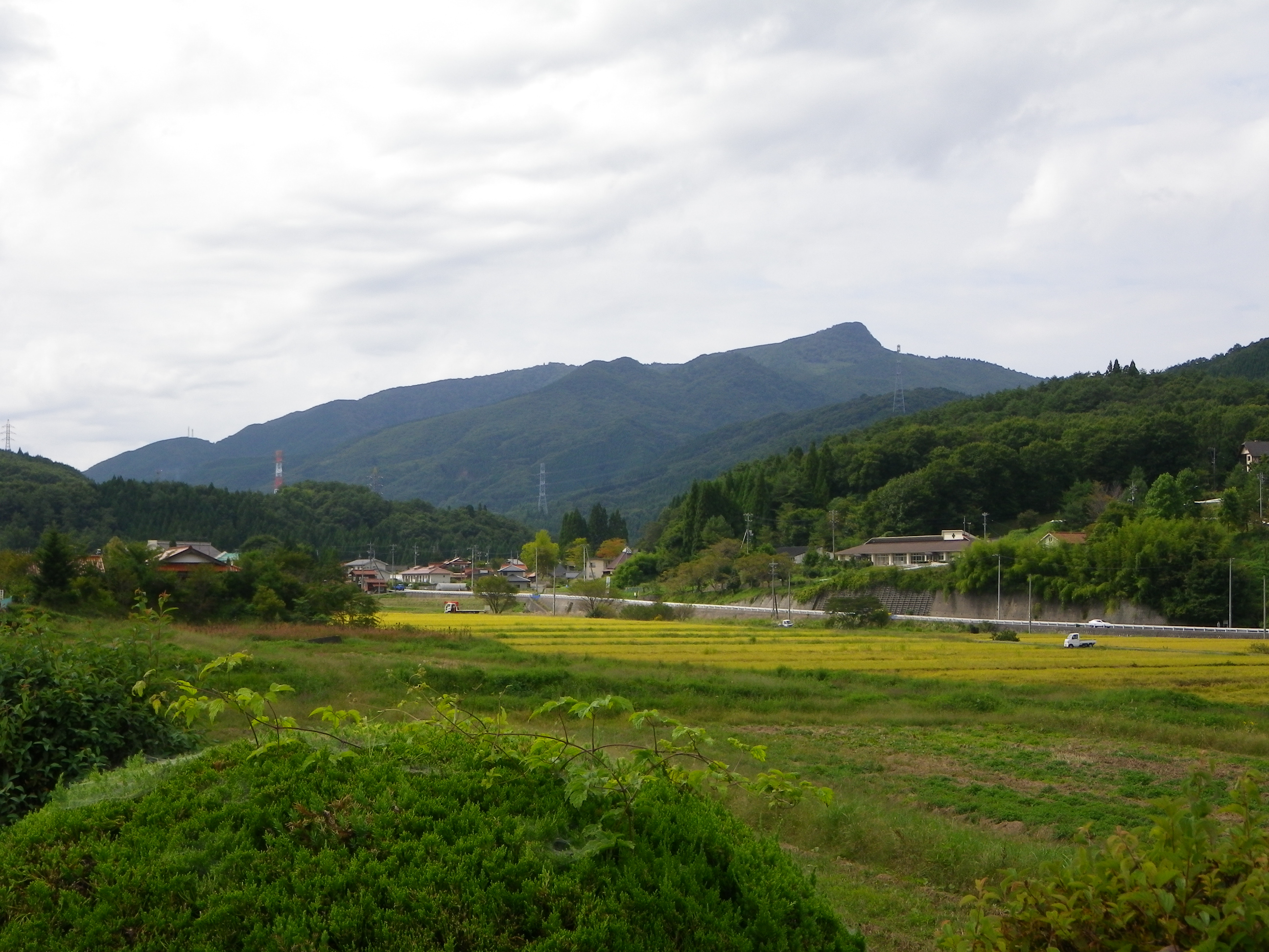 Mount Kanmuri (Kanmuri-yama) as seen from the east by north.